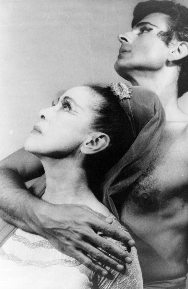 Portrait of Martha Graham and Bertram Ross (1961 June 27)